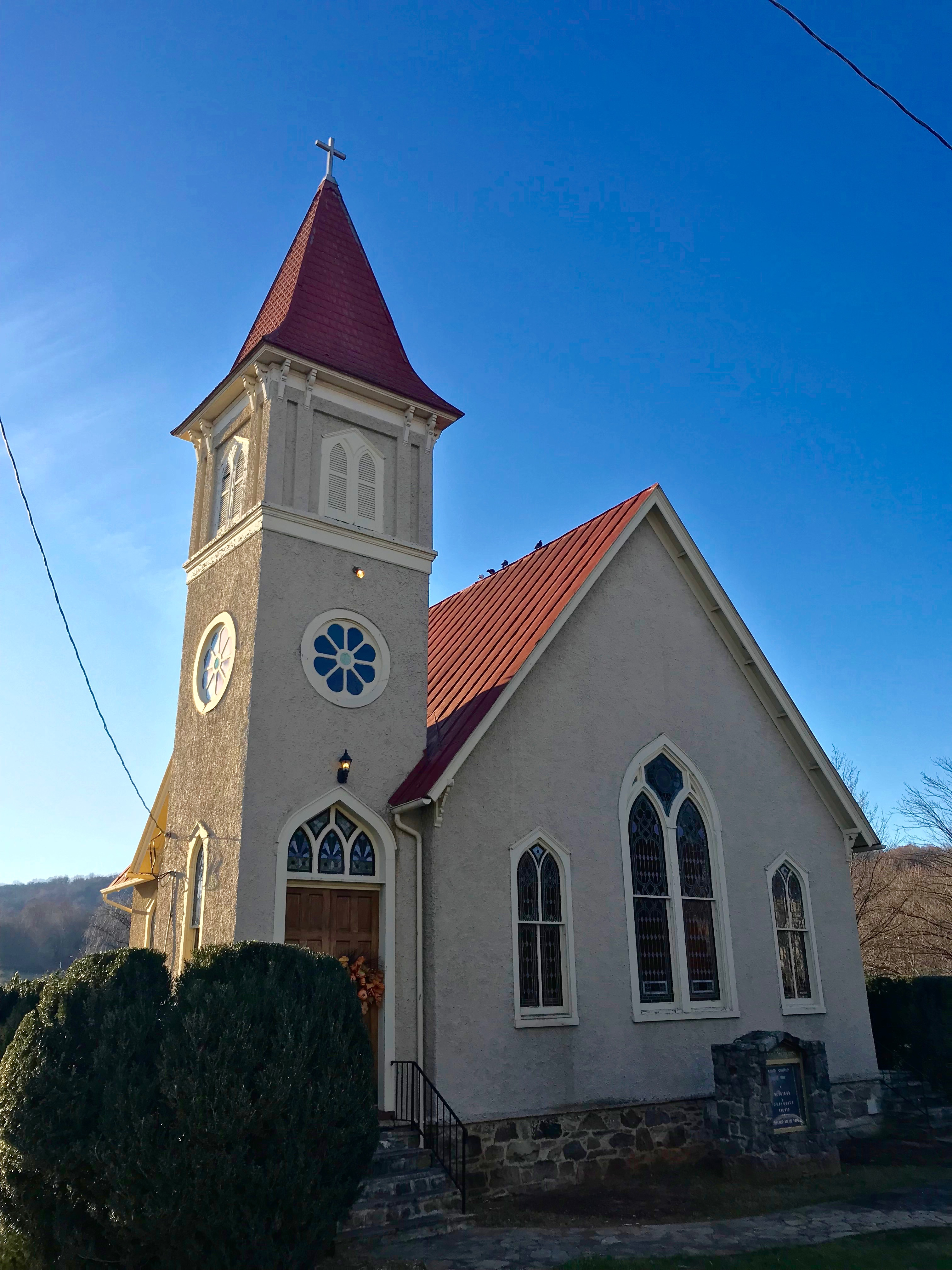 Trinity United Methodist Church (1892) is a late 19th-century United Methodist church building at 684 Federal Street in Paris, Virginia. The church is a contributing property within two historic districts on the National Register of Historic Places: Crooked Run Valley Rural Historic District and Paris Historic District.